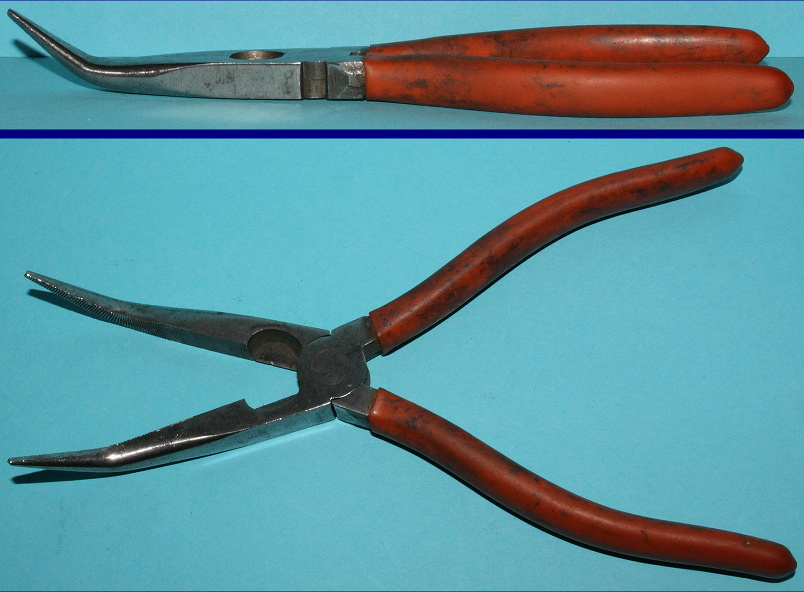 stork bill pliers: closed above, opened below